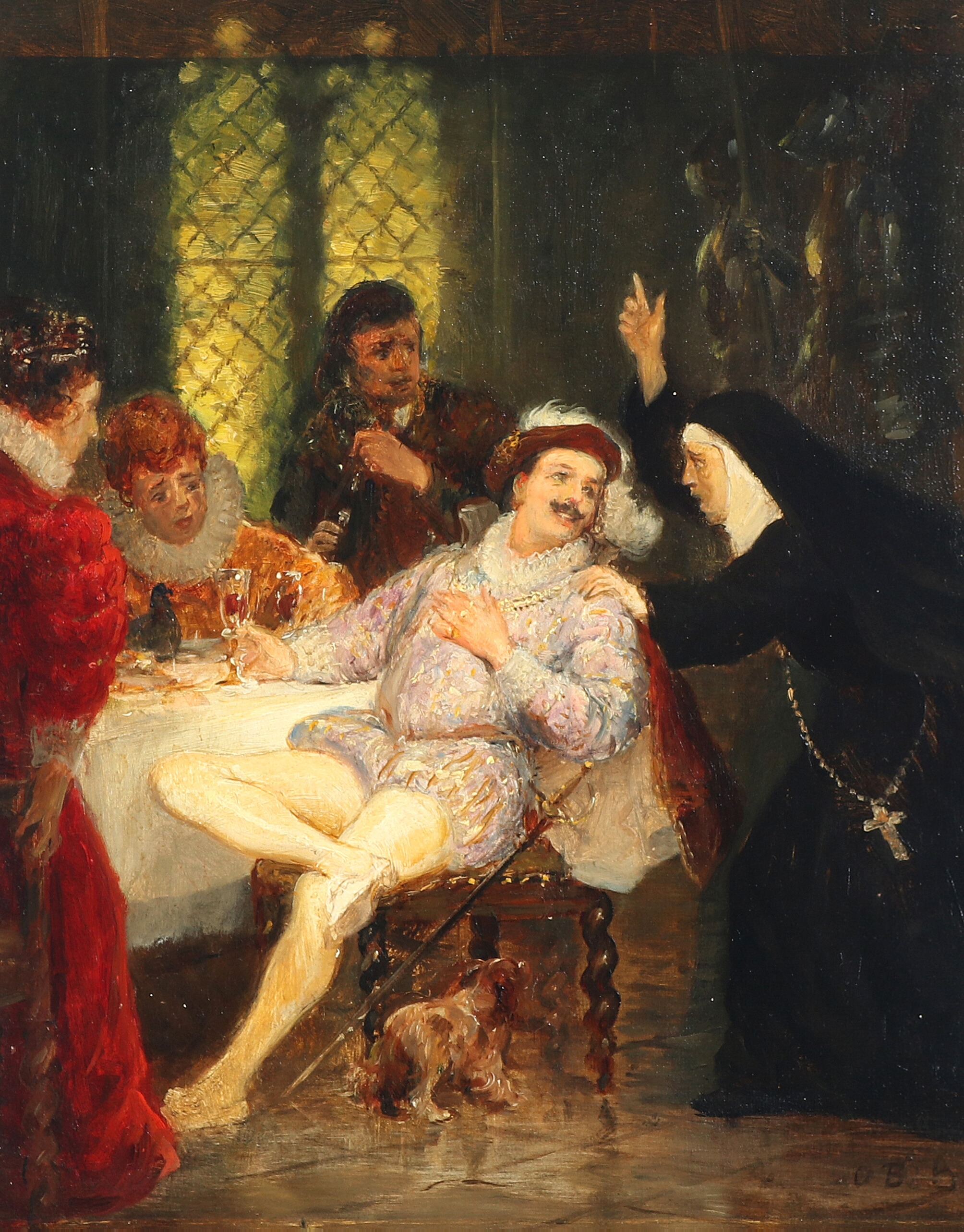 For 15 years in the middle of the 19th century, Leocadie Gerlach was the female star of the opera at the Royal Theater of Copenhagen. The role of Donna Anna in Don Giovanni was one of her acclaimed performances.